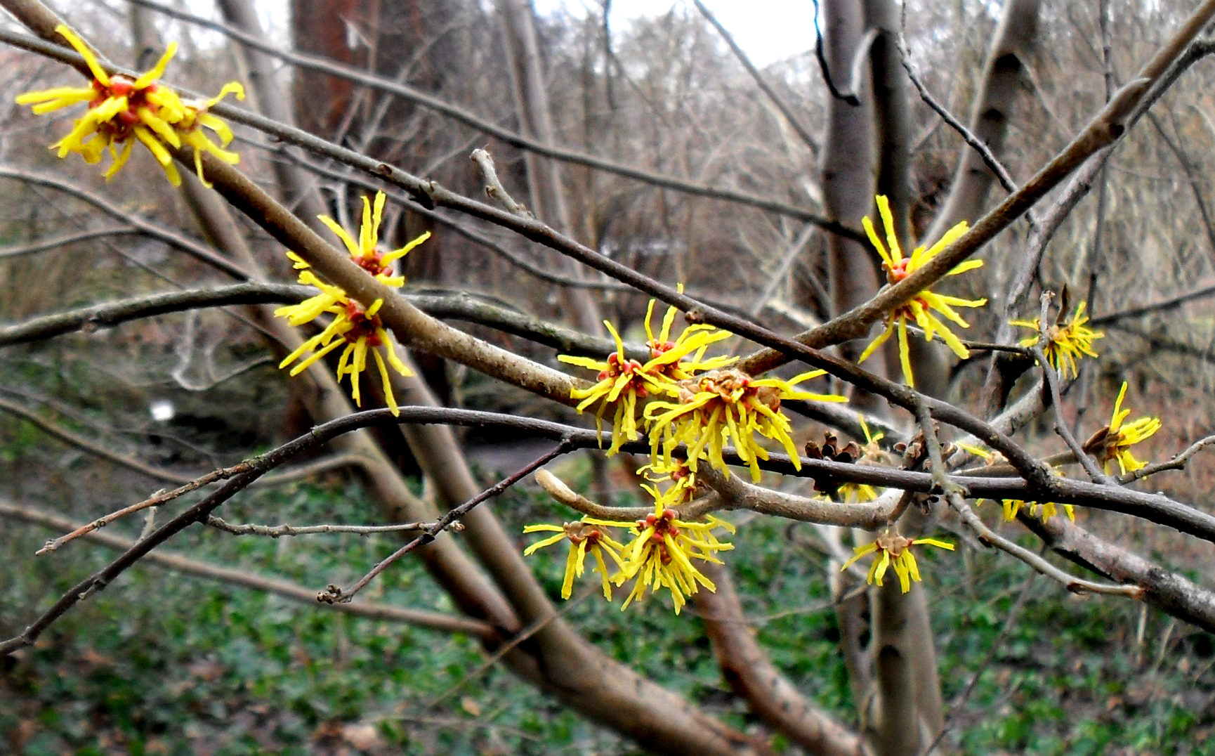 Hamamelis mollis - Botanical Garden Leipzig